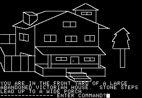 Screenshot of the Apple II game Mystery House.